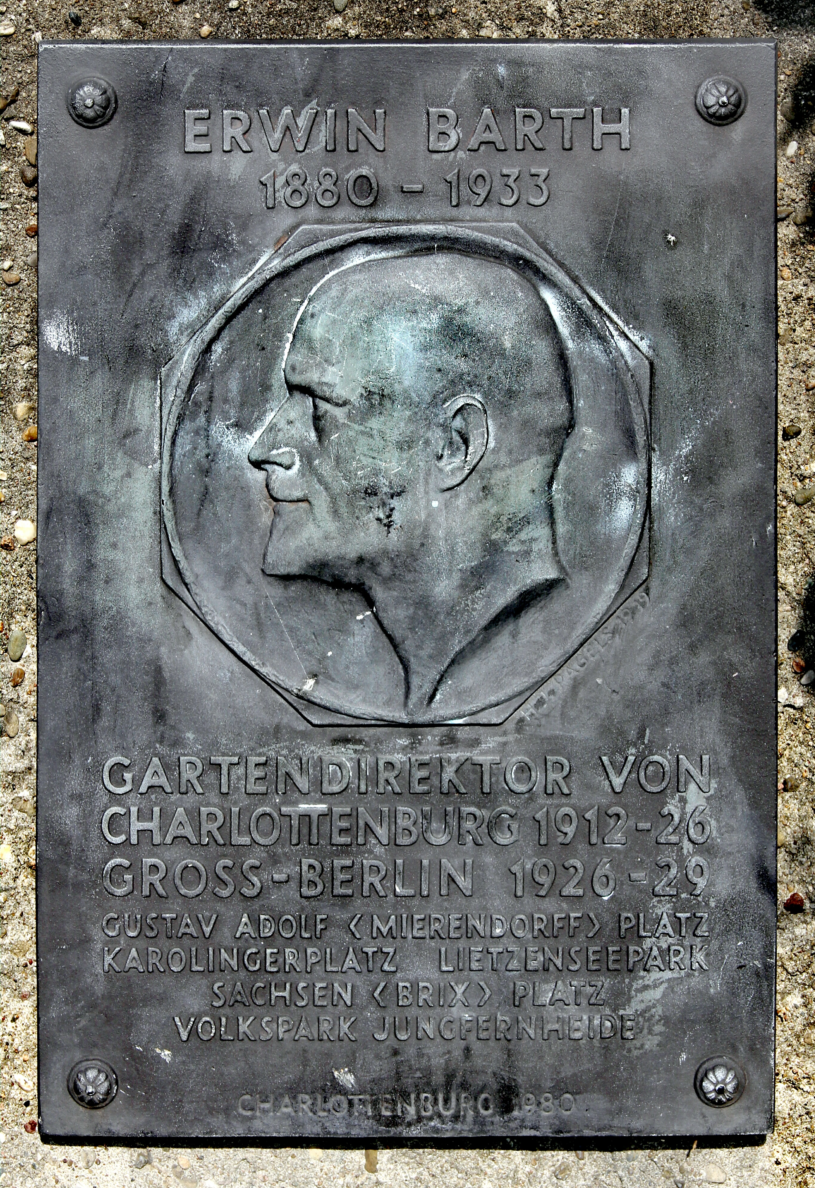 Memorial plaque, Erwin Barth, Mierendorffplatz, Berlin-Charlottenburg, Germany